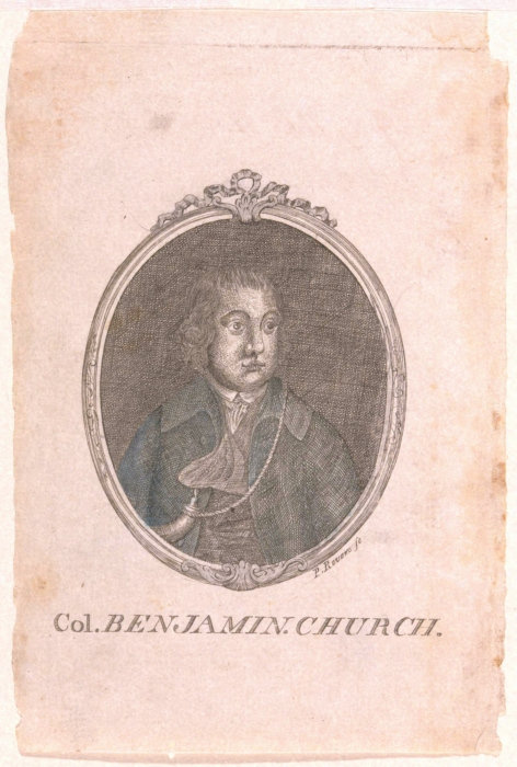 "Col. Benjamin Church," engraving, by the American engraver and silversmith Paul Revere. 6 3/4 in. x 4 1/2 in. Yale University Art Gallery. Courtesy of Yale University, New Haven, Conn.